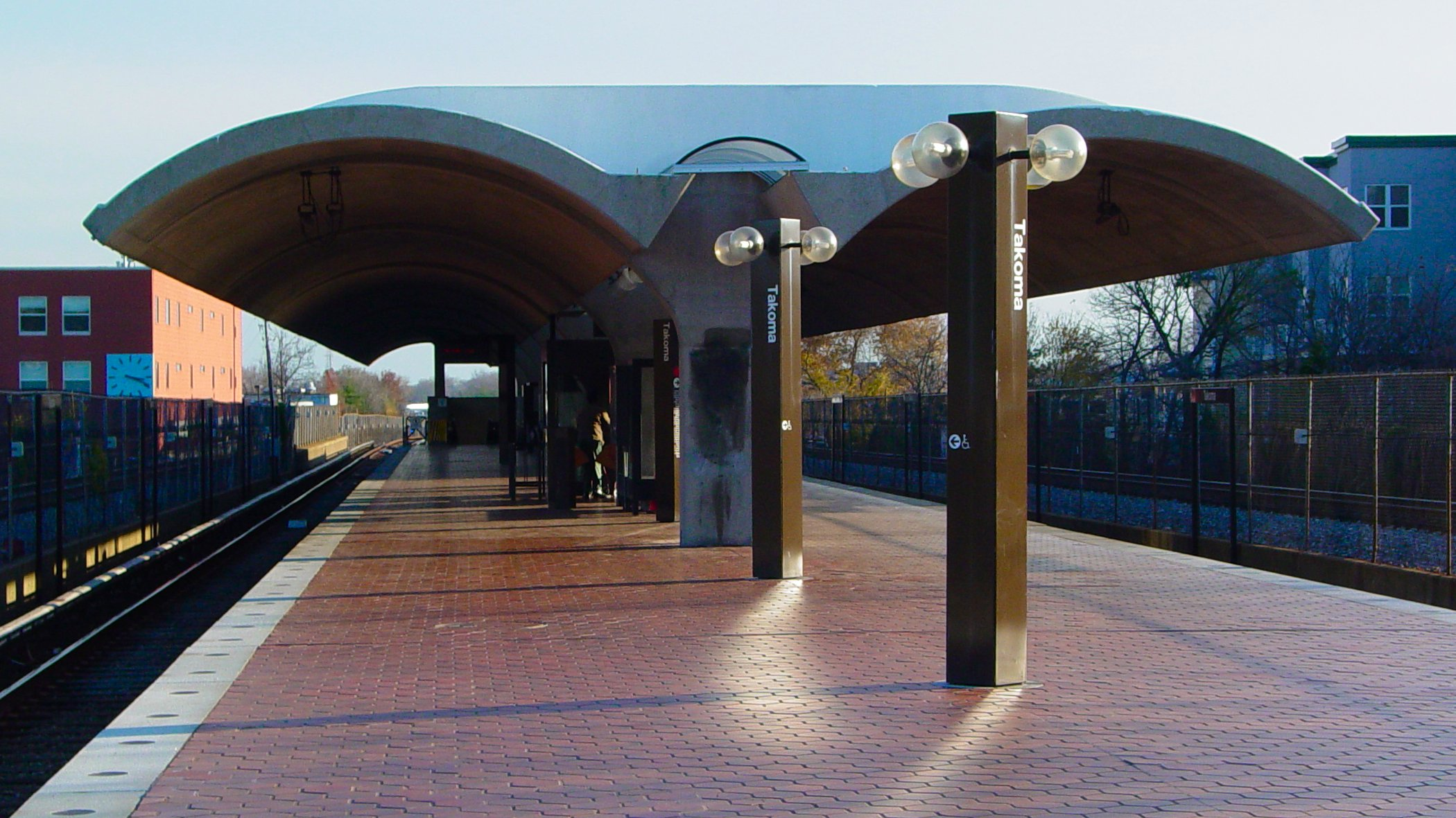 Takoma station as viewed from the outbound end of the platform, facing the canopy.